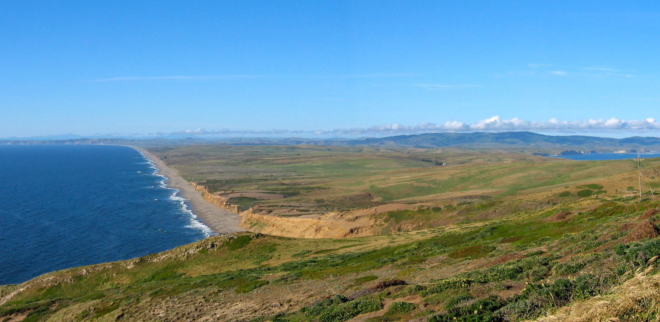 Photo taken by Poppy in May 2004.